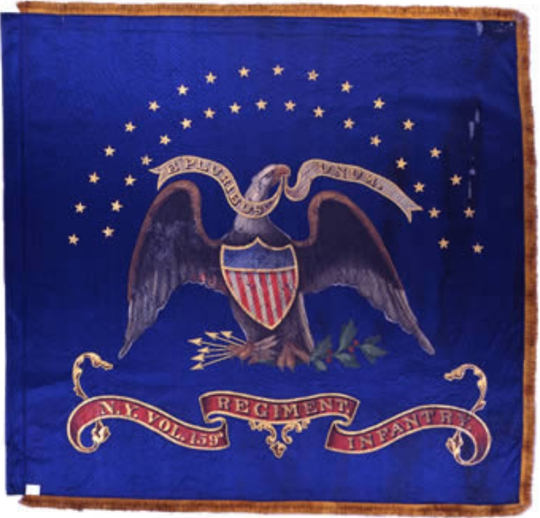 159th Regiment, NY Volunteer Infantry Regimental Color, New York State Military Museum